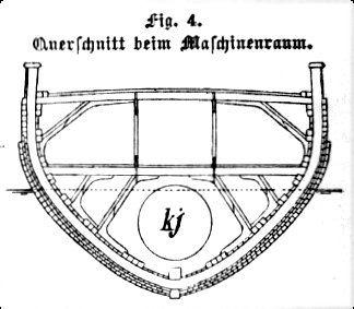 Cross section of Nansen's ship Fram.